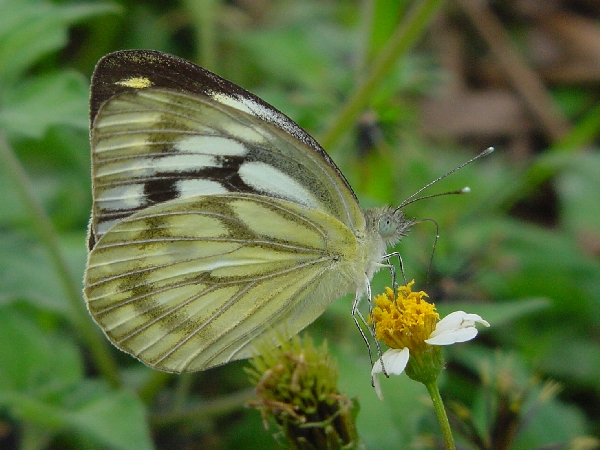 Common Gull (Cepora nerissa) Photographed at Bangalore